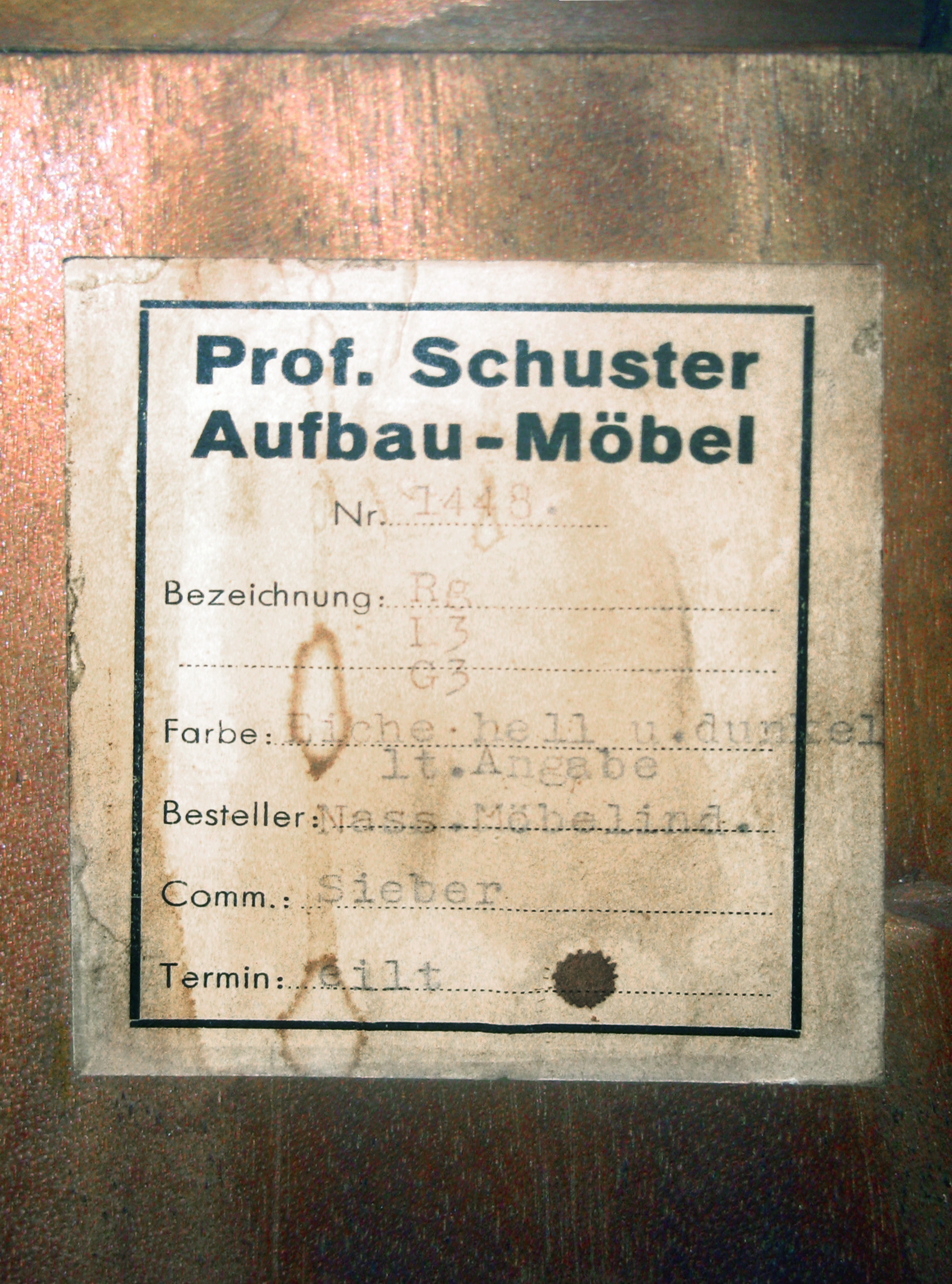 Furniture designed by Franz Schuster for the "New Frankfurt"-project. Today part of the collection of the Ernst-May-Society